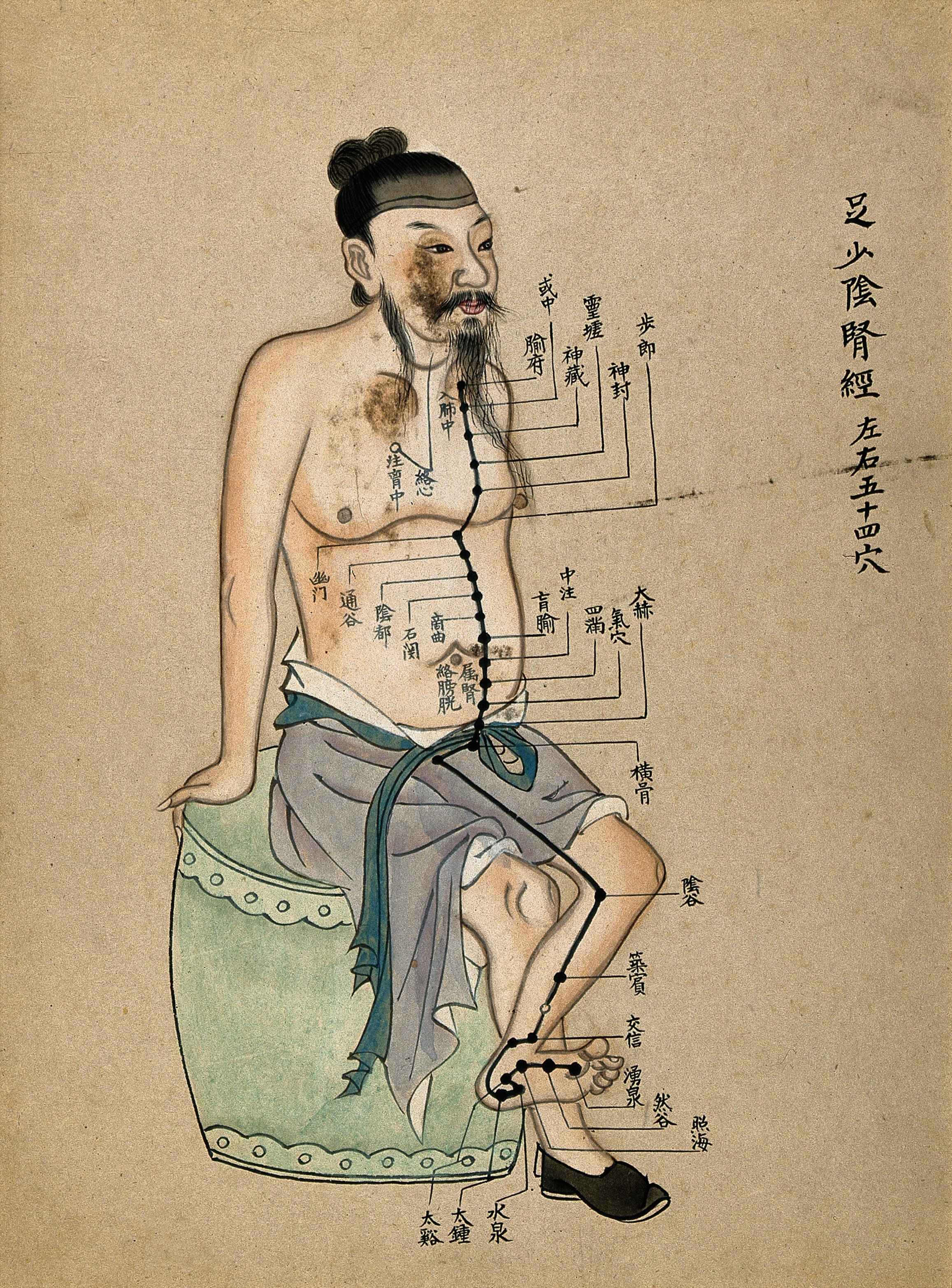 Acupuncture chart of a seated man (n.d.) Iconographic Collections Keywords: Acupuncture